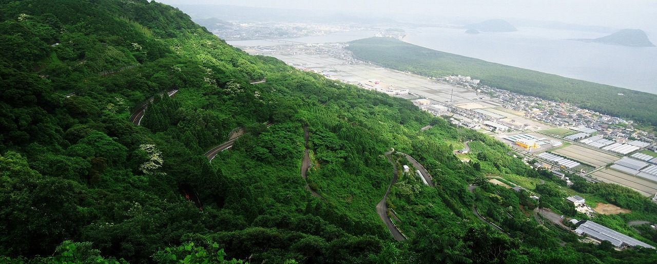 Switchback road to Mt. Kagami